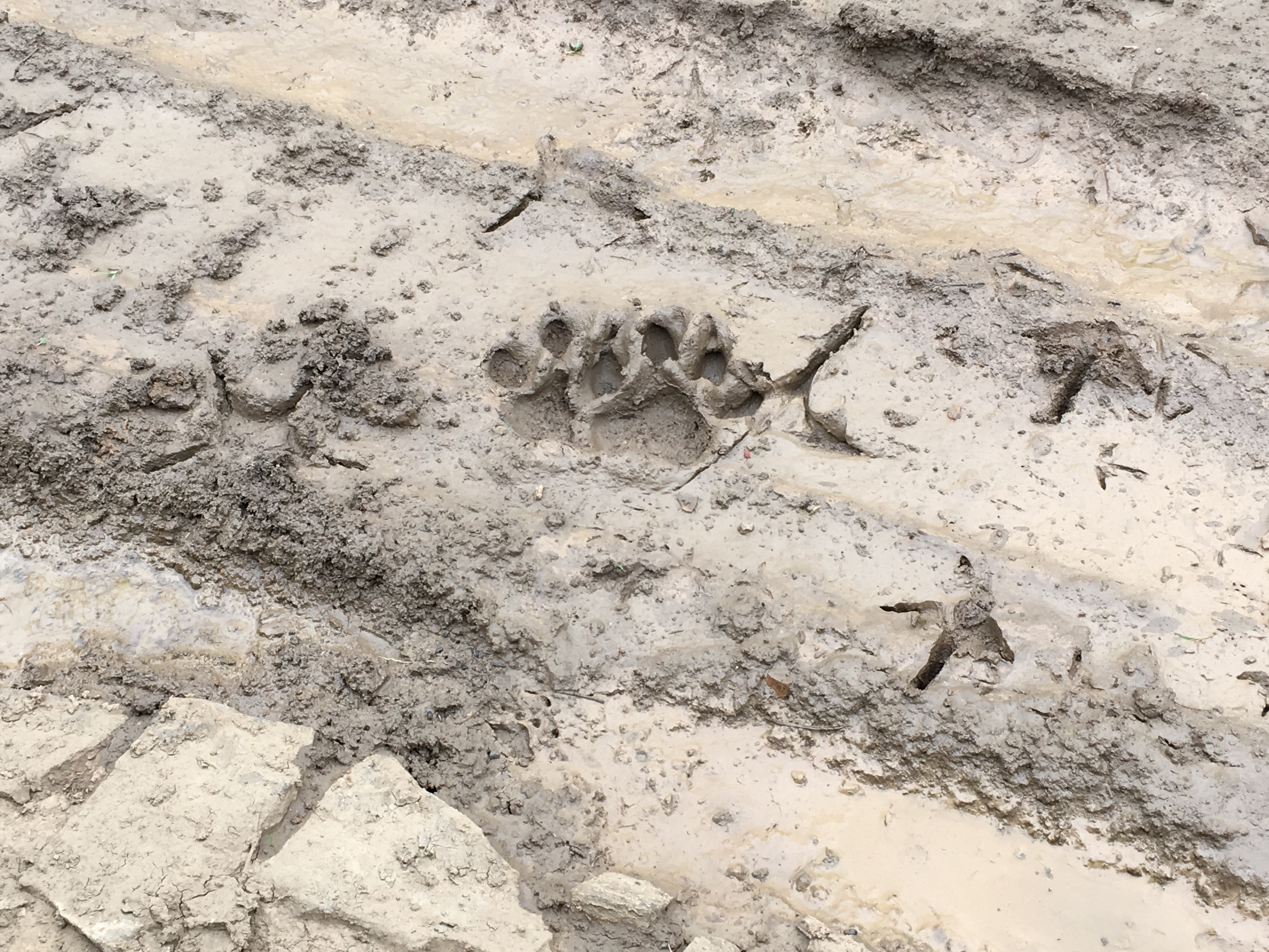 this tiger foot print from ranthambhor national park